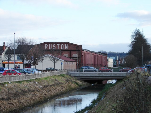 Ruston Building and Tritton Road, Lincoln View from the public footpath near Farmfoods with one of the Ruston buildings over the road.